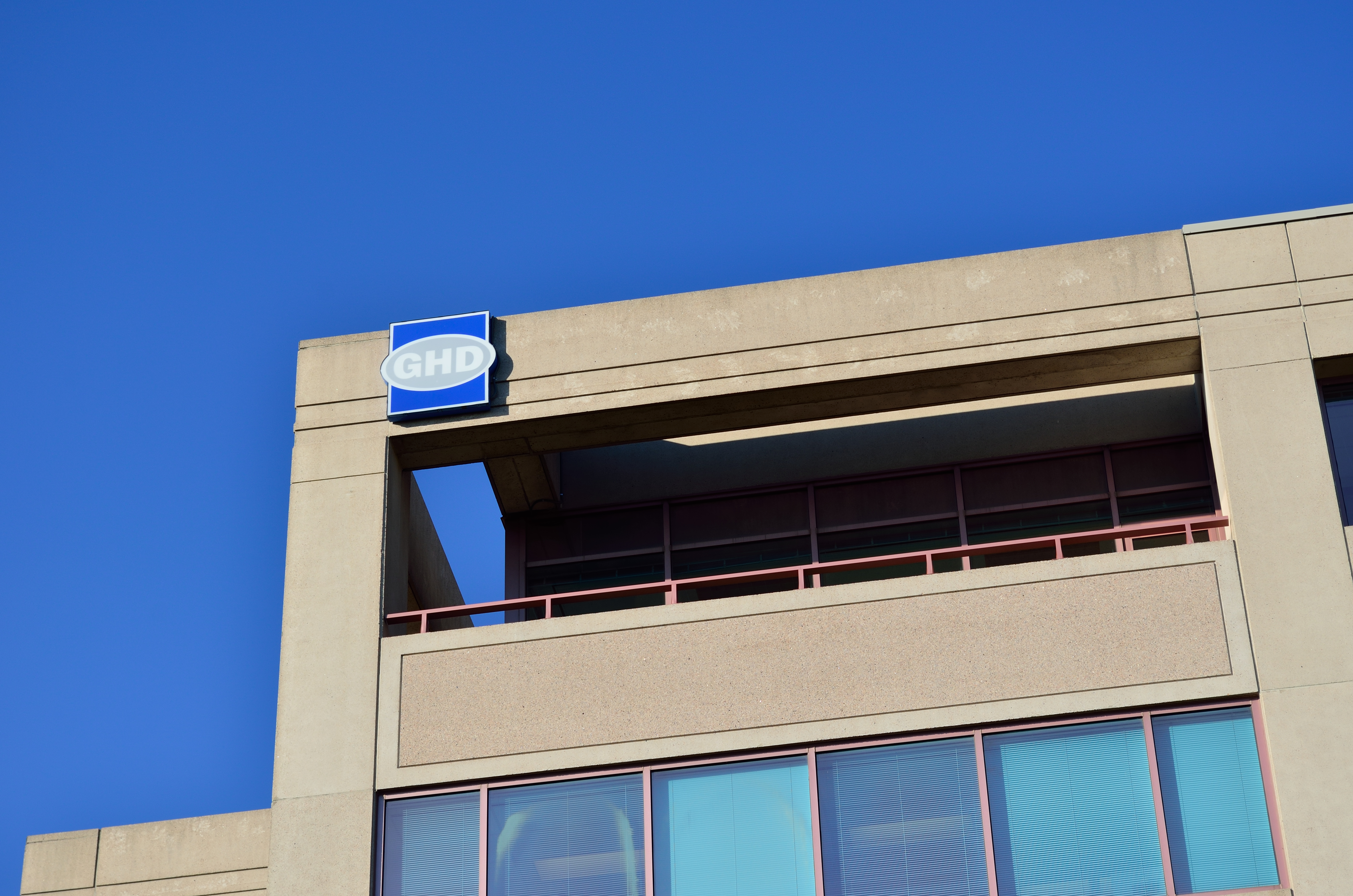 GHD Group Markham Office